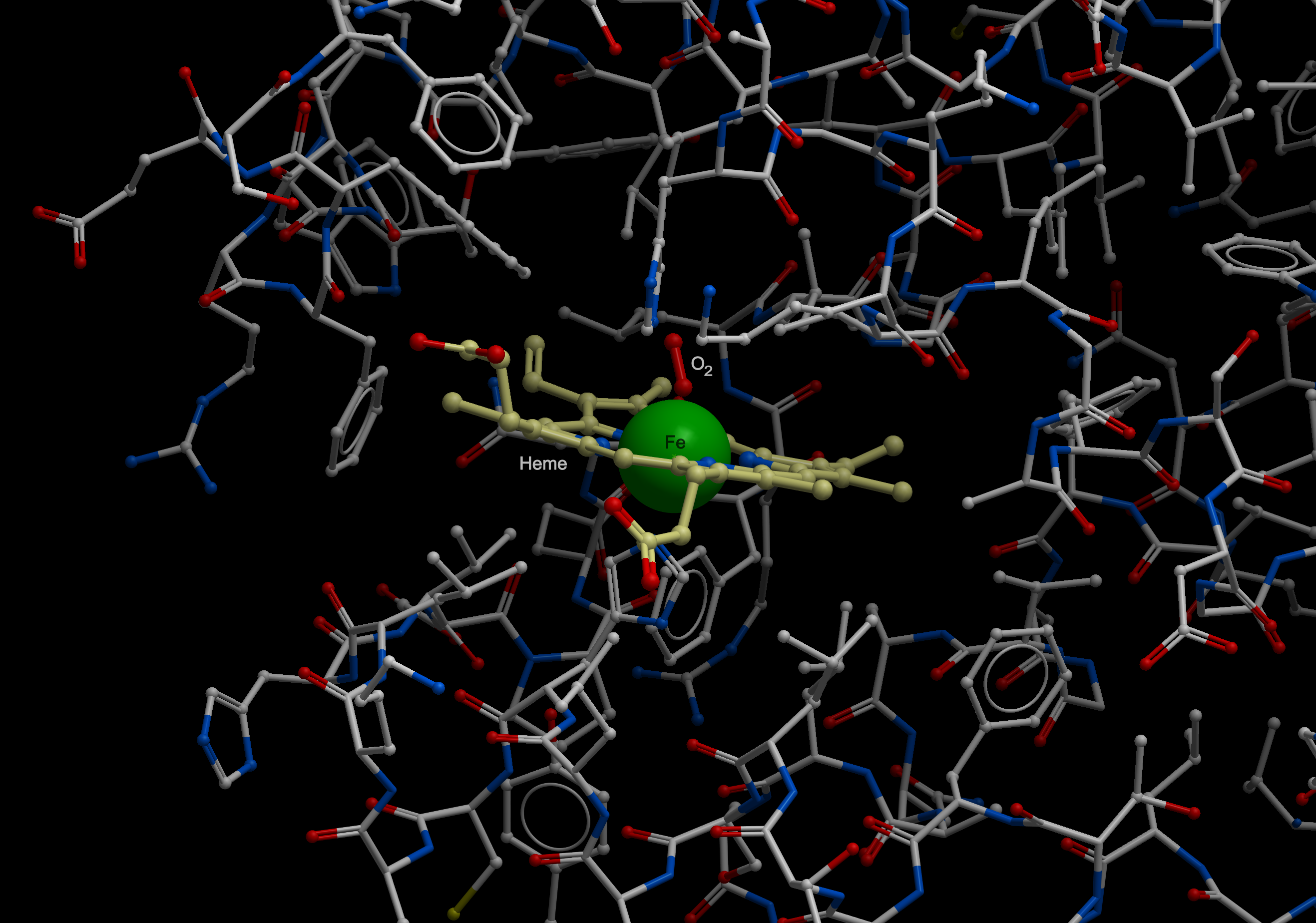 ball and stick model of heme pocket of hemoglobin B chain, with loaded heme; iron as green VDW ball, dioxygen above, after PDB 1GZX.